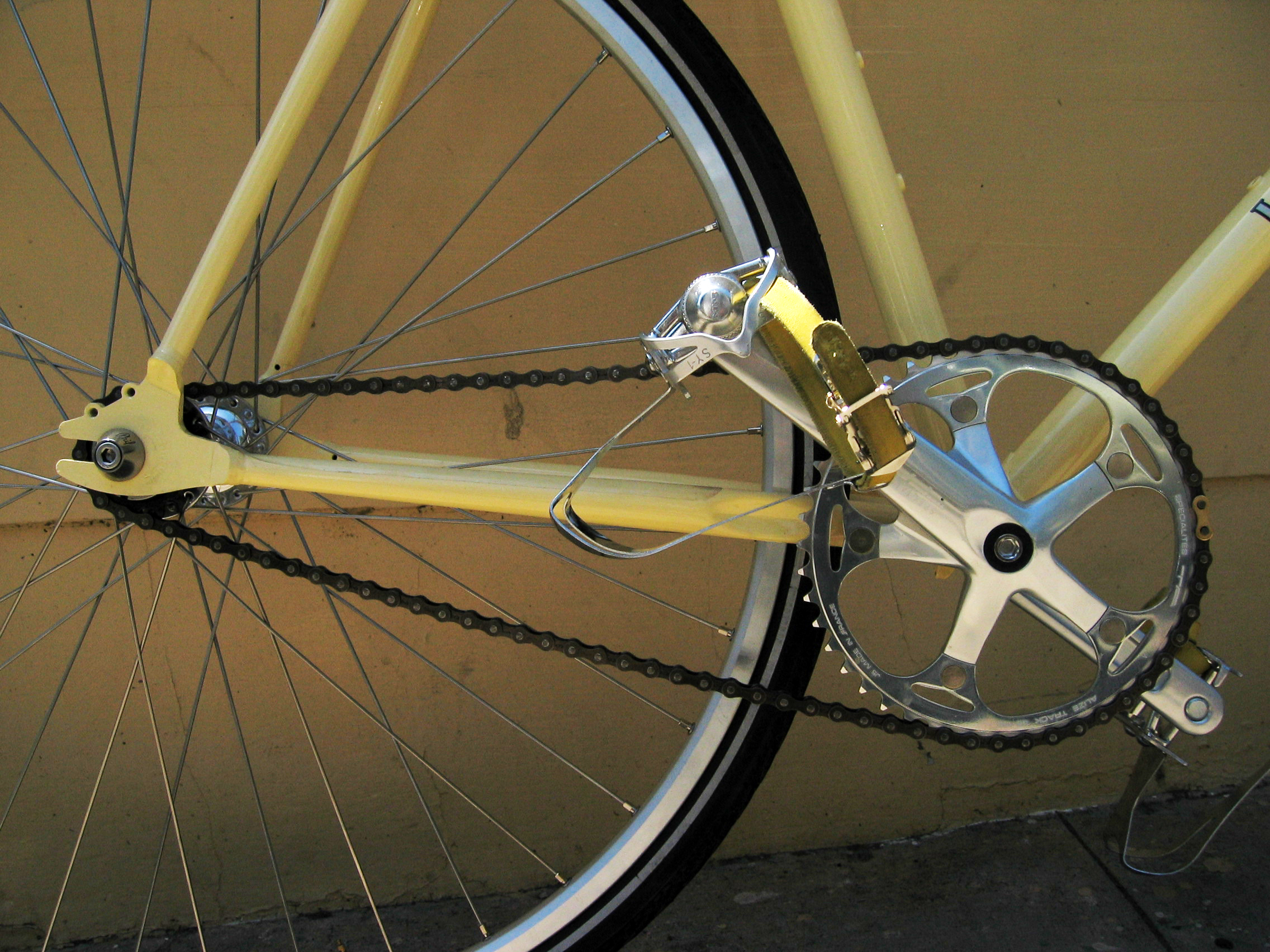 Specialities Classic TA Alize track crankset